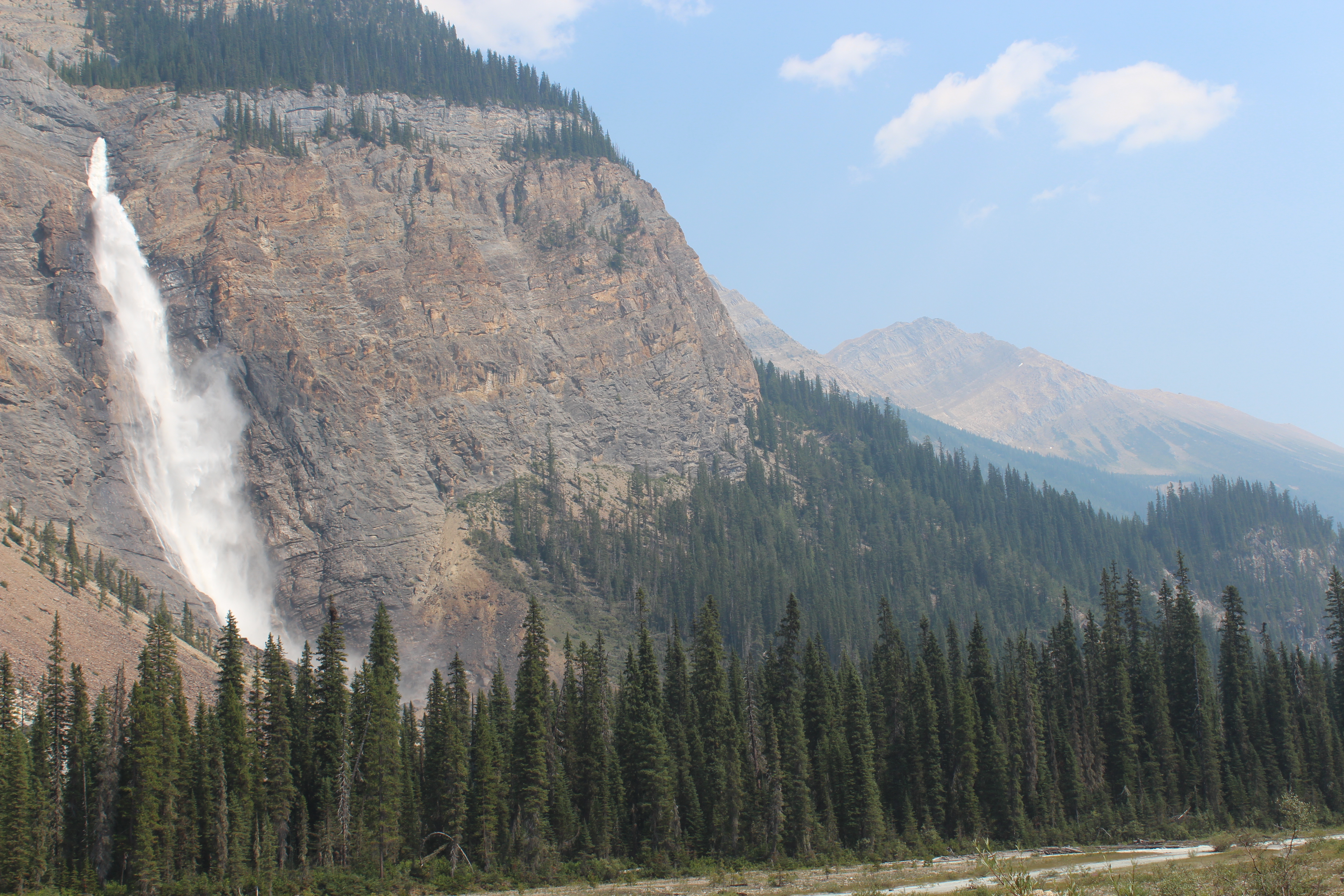 Awesome Takakkaw Falls, Yoho National Park, British Columbia, Canda